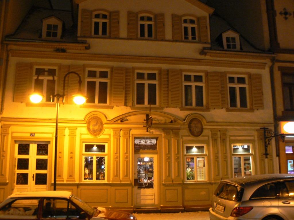 Bock-Apotheke at the "Leipziger Straße"